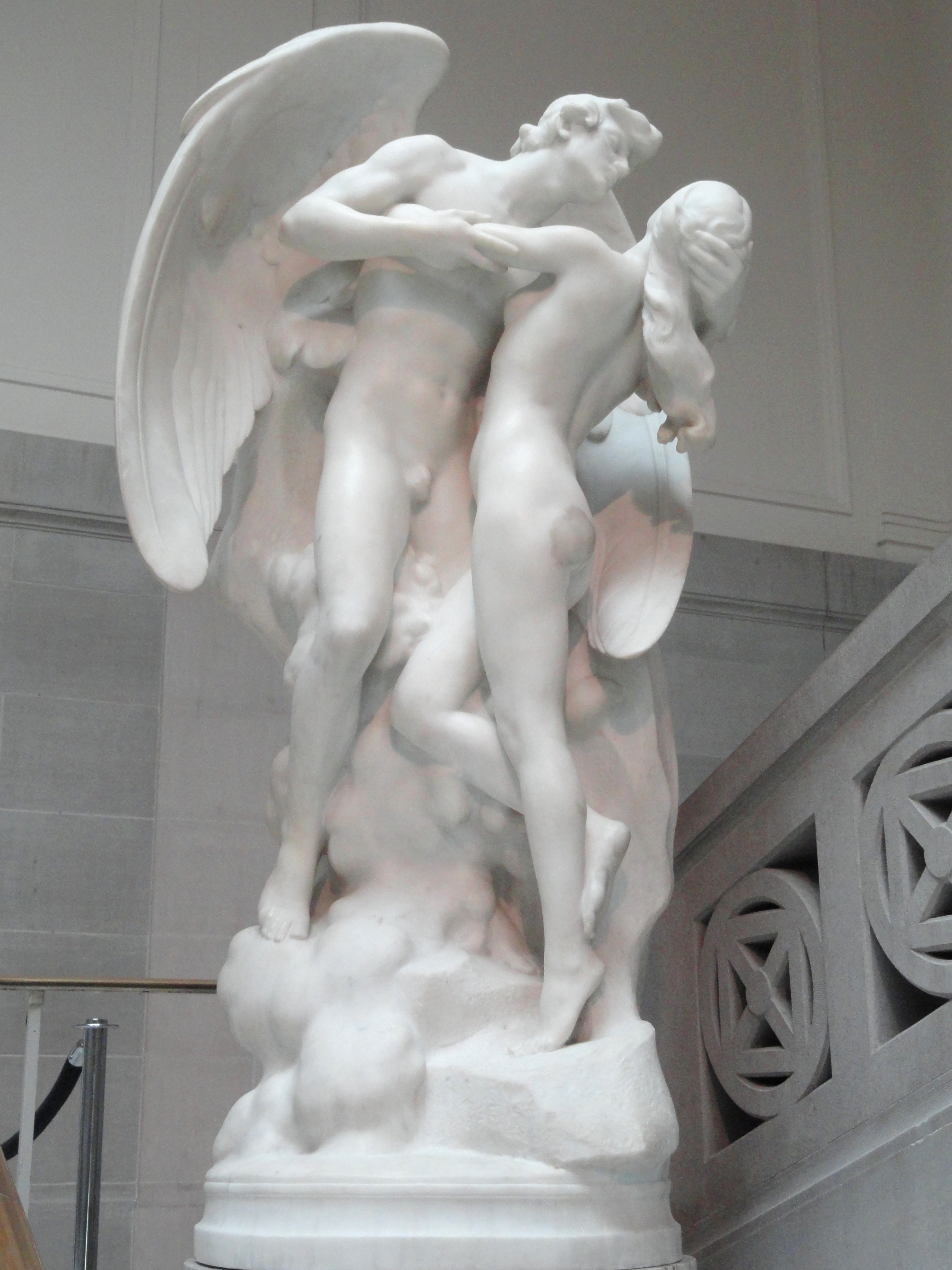 Sculpture exhibited in the Corcoran Gallery of Art, Washington, D.C., USA. There were no prohibitions against photography in the museum. This artwork is in the public domain because the artist died more than 70 years ago.